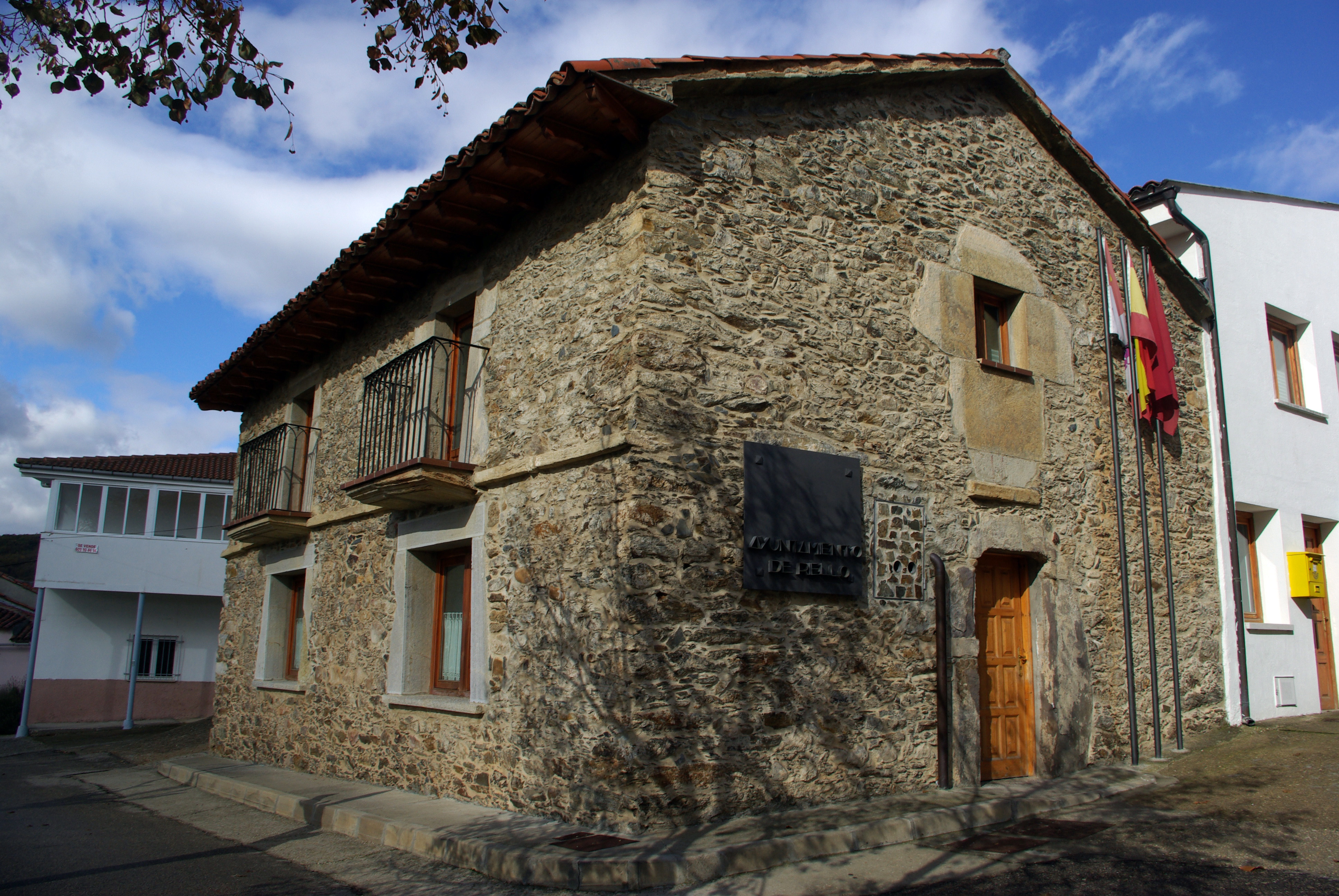 Riello town hall (León, Spain).